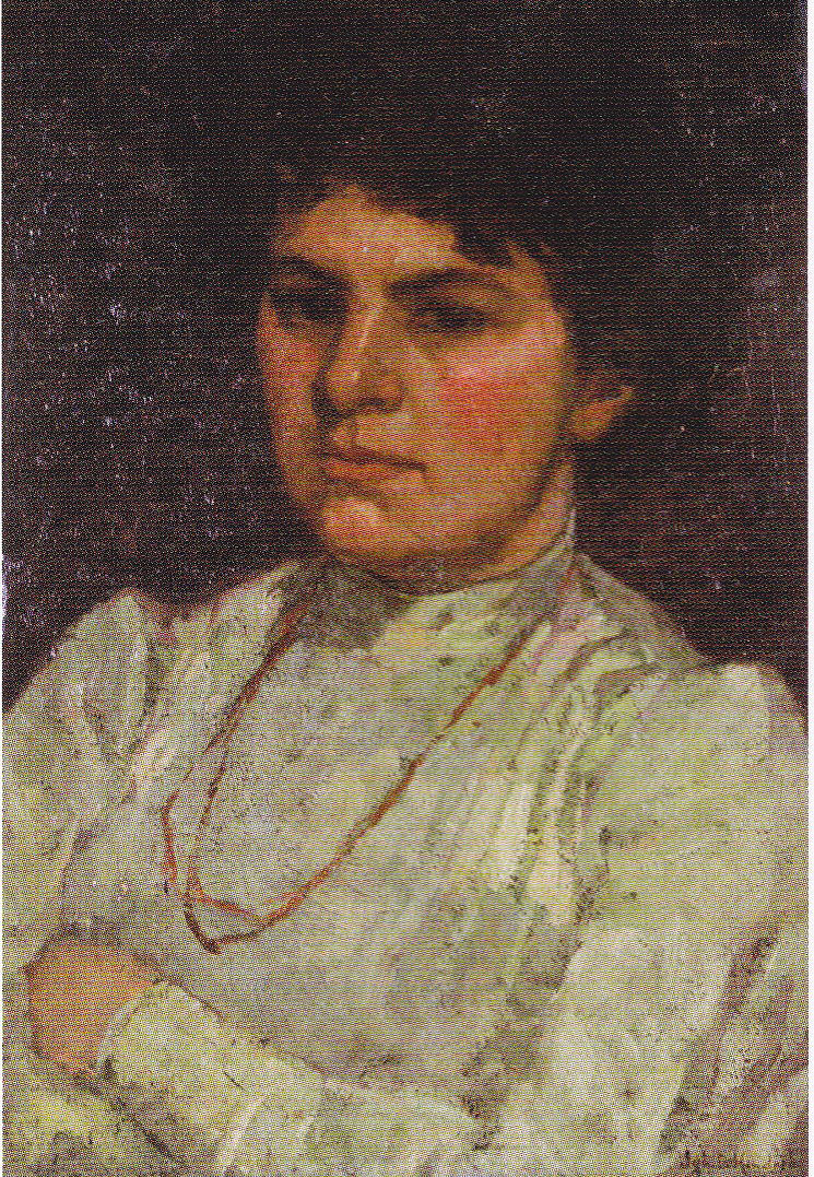 Painting of Dutch writer Carry van Bruggen (1881-1932) by J.D. Hendriks. Portrait painted ca. 1920. Location of the painting in 2016: Nederlands Letterkundig Museum (The Hague, the Netherlands)